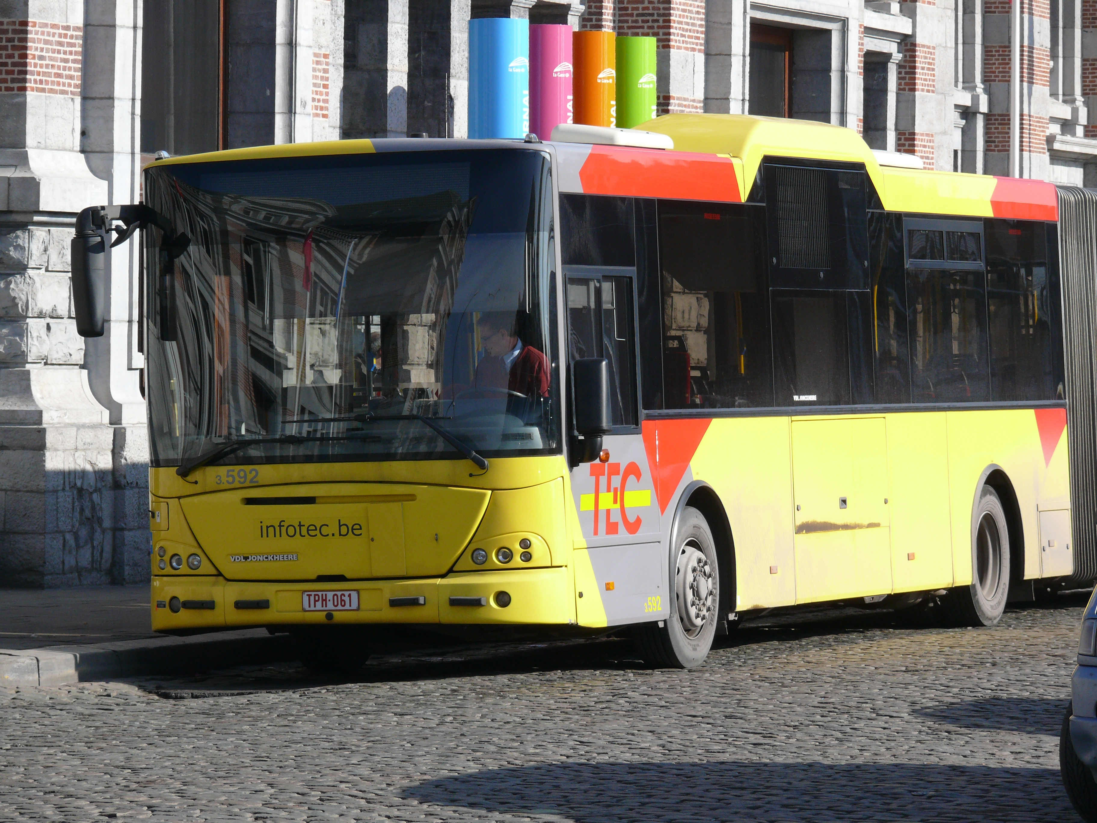 TEC TEC Hainaut 3592, a Jonckheere Transit 2000 G bus with a Jonckheere 115 body work and a DAF PE 228C motor.